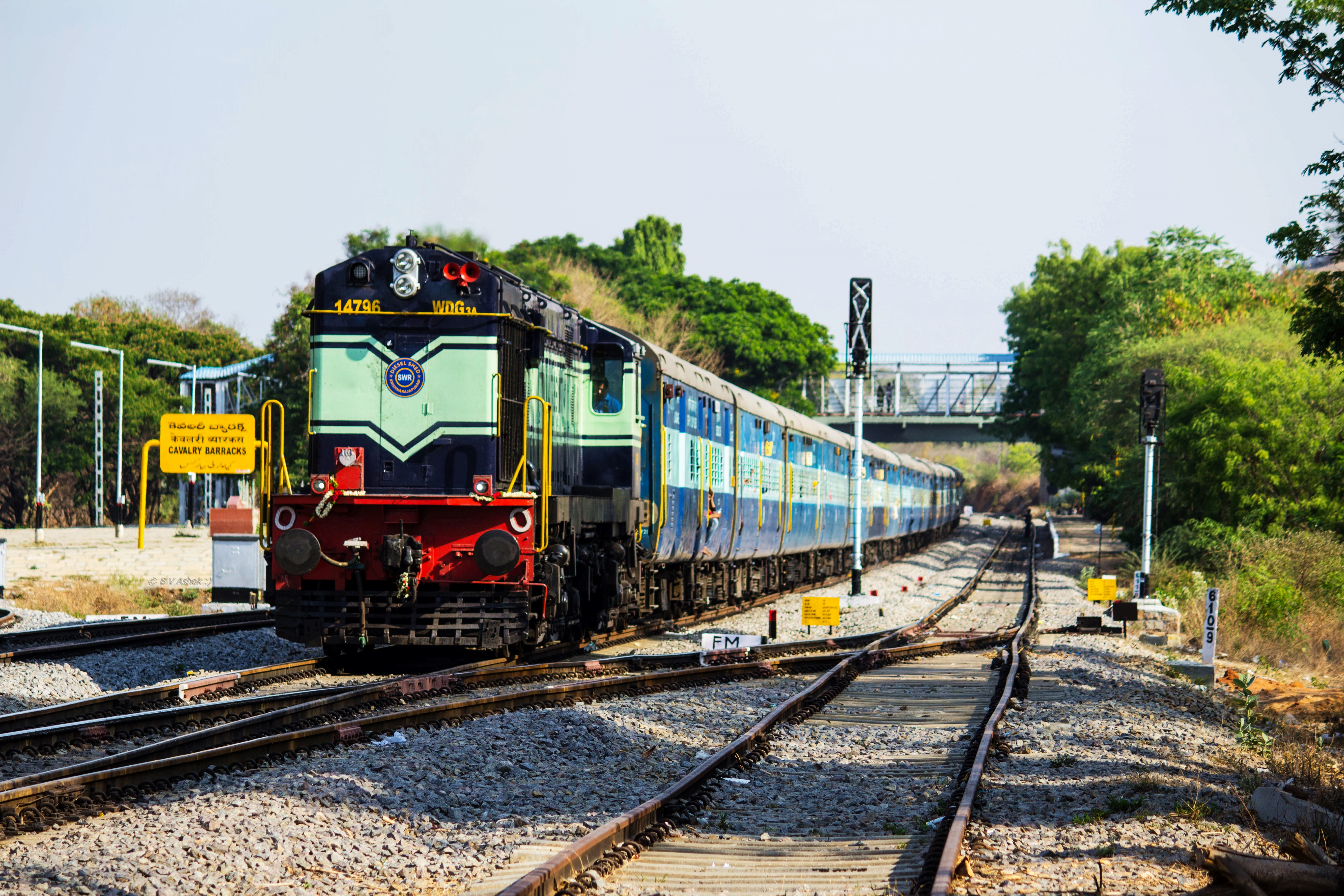 KJM WDG-3A 14796 cruising through mainline of Cavalry Barracks with 07125 Hyderabad - Ajmer Urs special...